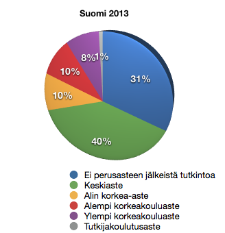 Education level of over 15 years old people from Finland in 2013. Source tilastokeskus koulutustilastot 2014